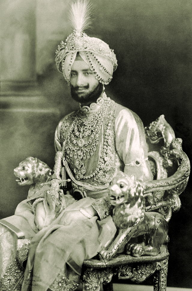 Maharaja Yadavindra Singh of Patiala wearing the famous ʽPatiyala Necklaceʼ1930s